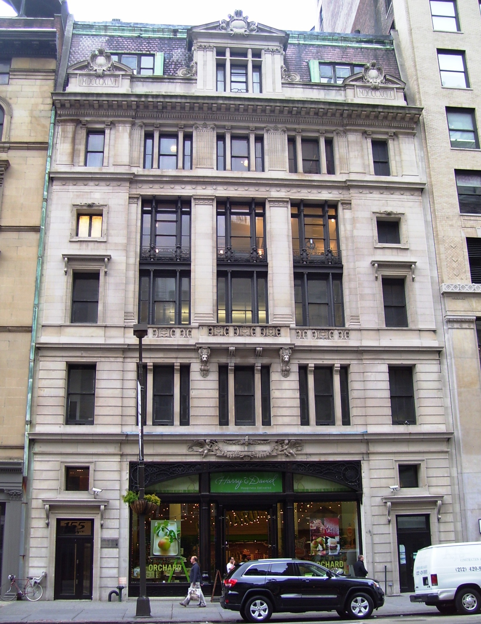 155 Fifth Avenue, between 21st and 22nd Streets, in the Flatiron District of Manhattan, New York City, was originally built in 1893-1894 for Charles Scribner's Sons, the book publisher. It was designed by Ernest Flagg, who was a Scribner relative. For 30 years, until 2007, the building was the headquarters of United Synangogue of America, which sold it for $26.5 million. The buyer then re-sold it six months later for $38 million. The building has been a designated NYC landmark since 1976, and is located within the Ladies Miles Historic District. (Sources: AIA Guide to NYC (4th ed.), New York City Landmarks (4th ed.) and [1])